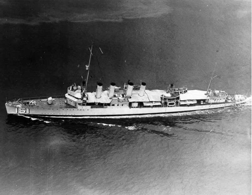 The U.S. Navy destroyer USS Biddle (DD-151), after her recommissioning in October 1939. Note the addition of depth charge throwers just aft of the aft torpedo mount.